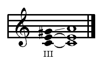 Augmented triad resolution in a-moll (harmonic)